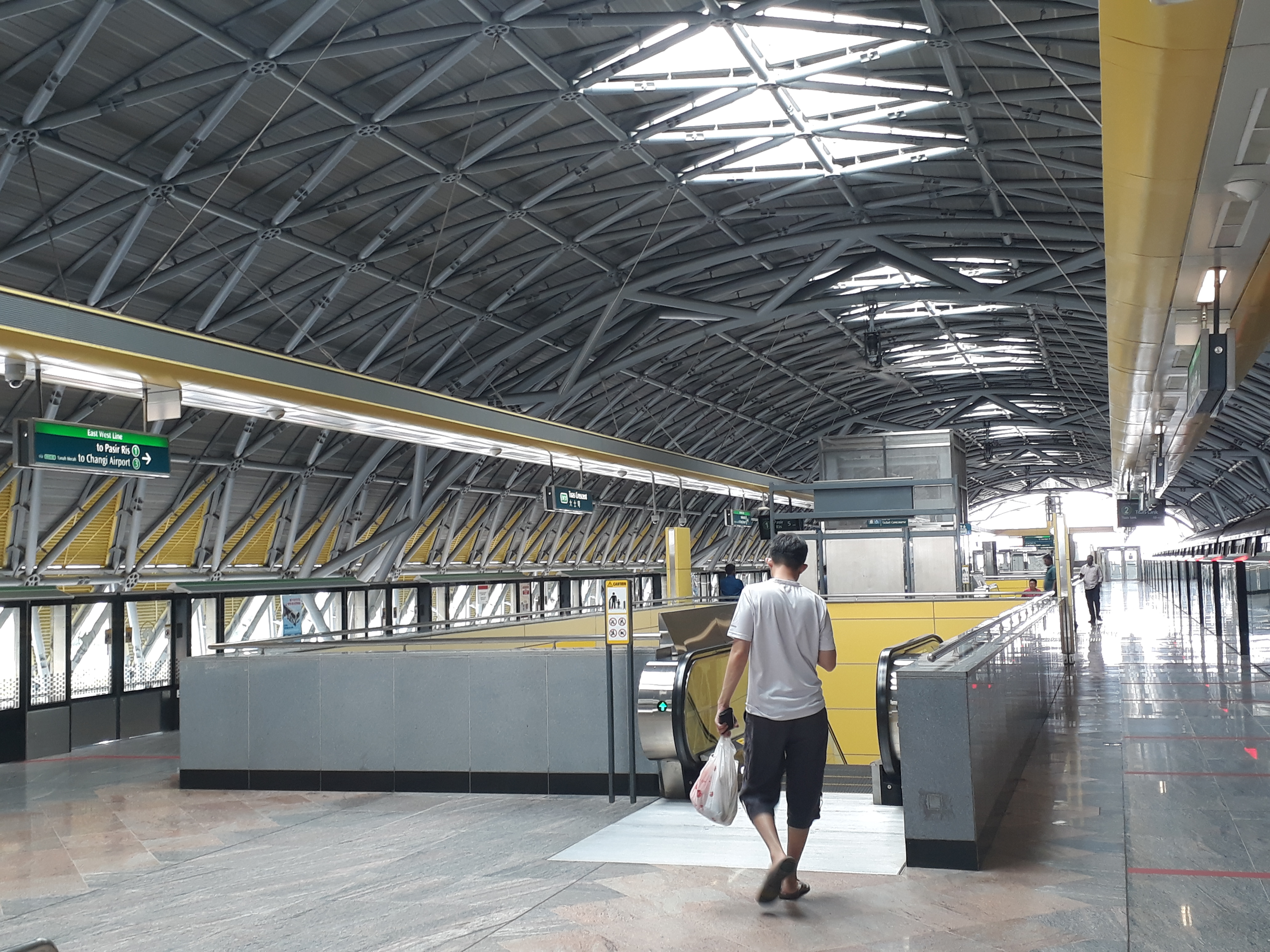 Platform level of Tuas Crescent